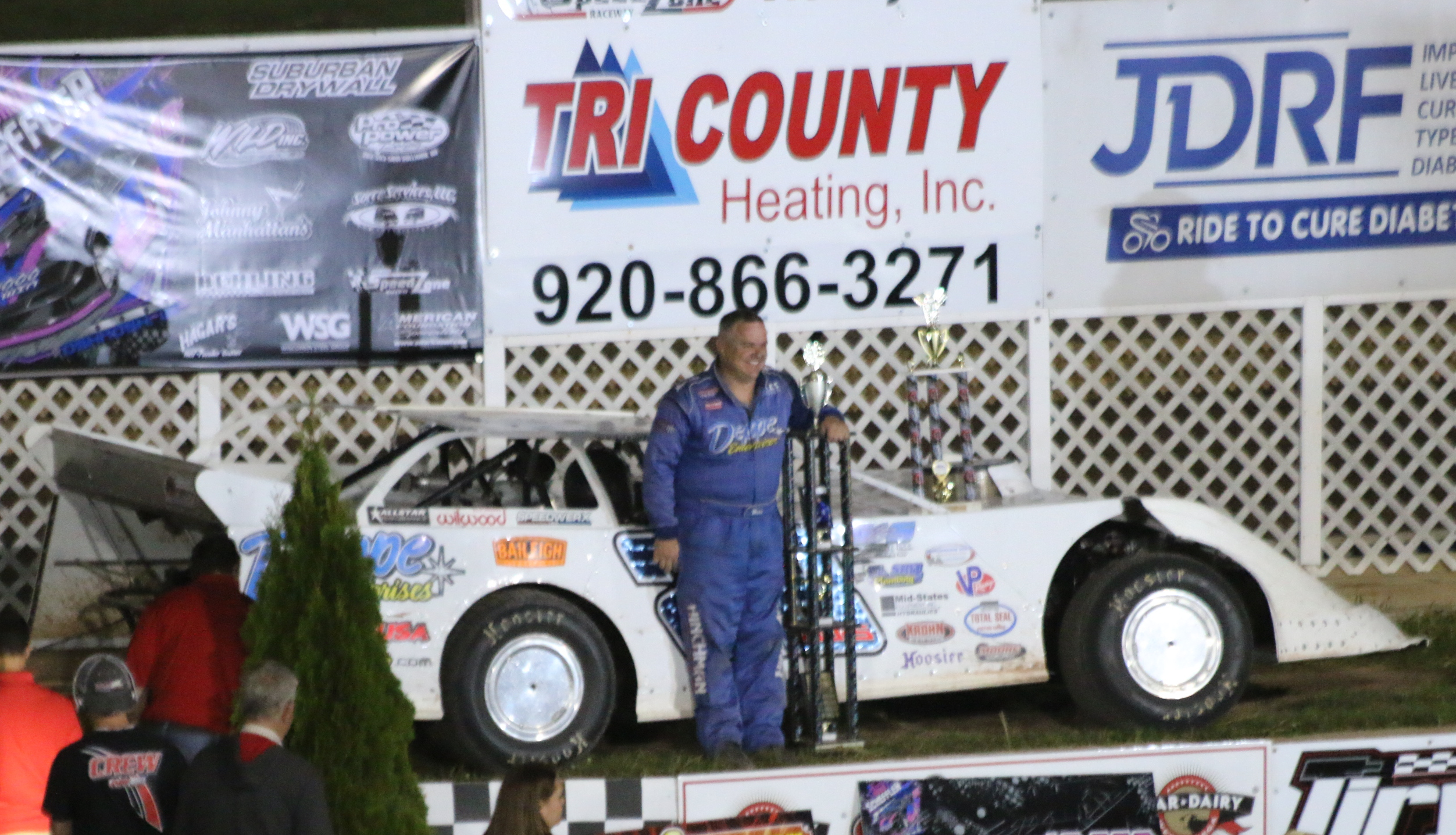 National Dirt Late Model Hall of Fame driver Jimmy Mars in victory lane after winning the Corn Belt Late Model series race at Oshkosh, Wisconsin.